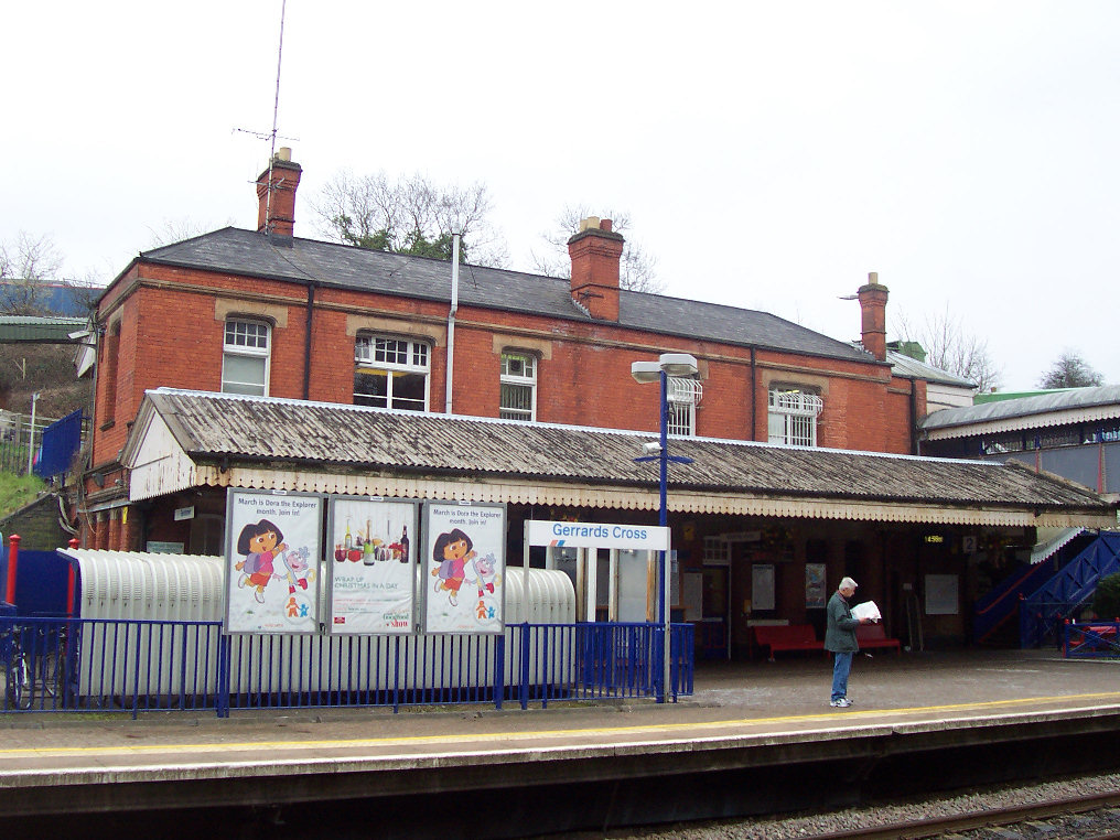 Author [user:Feebtlas]